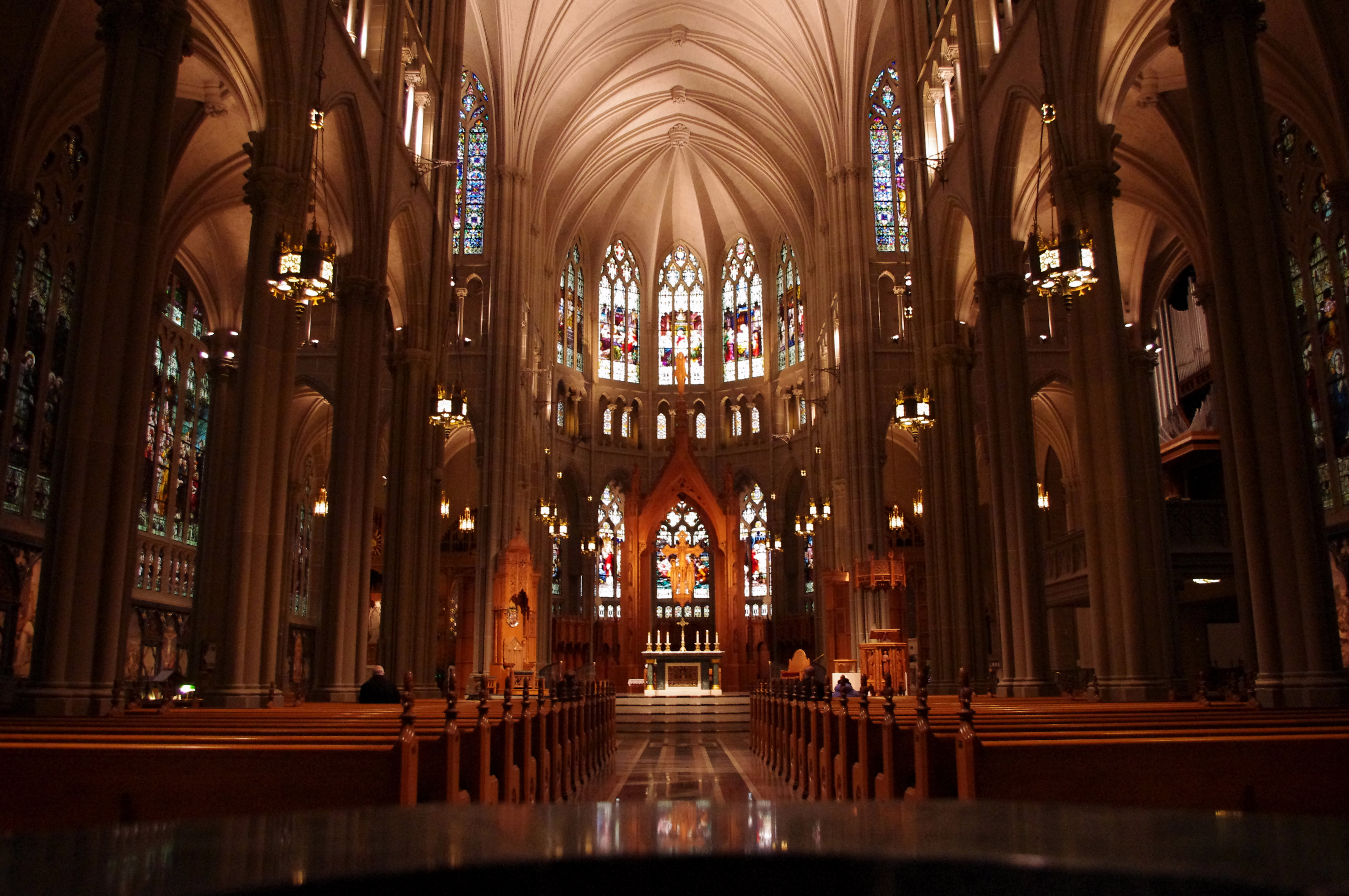 St. Mary's Cathedral Basilica of the Assumption (Covington, Kentucky), interior, nave